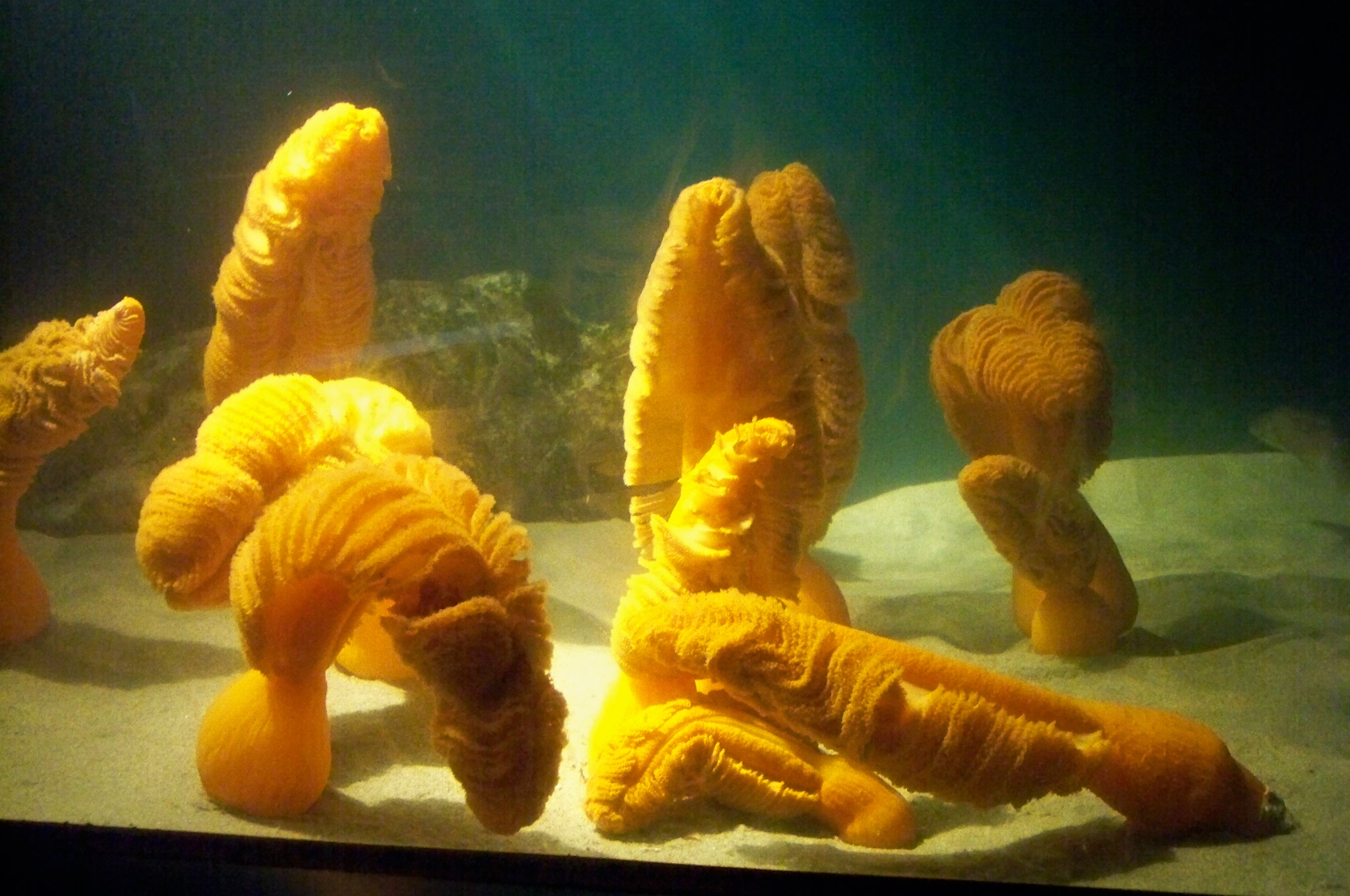 Part of the Steinhart Aquarium at the California Academy of Science in San Francisco, California